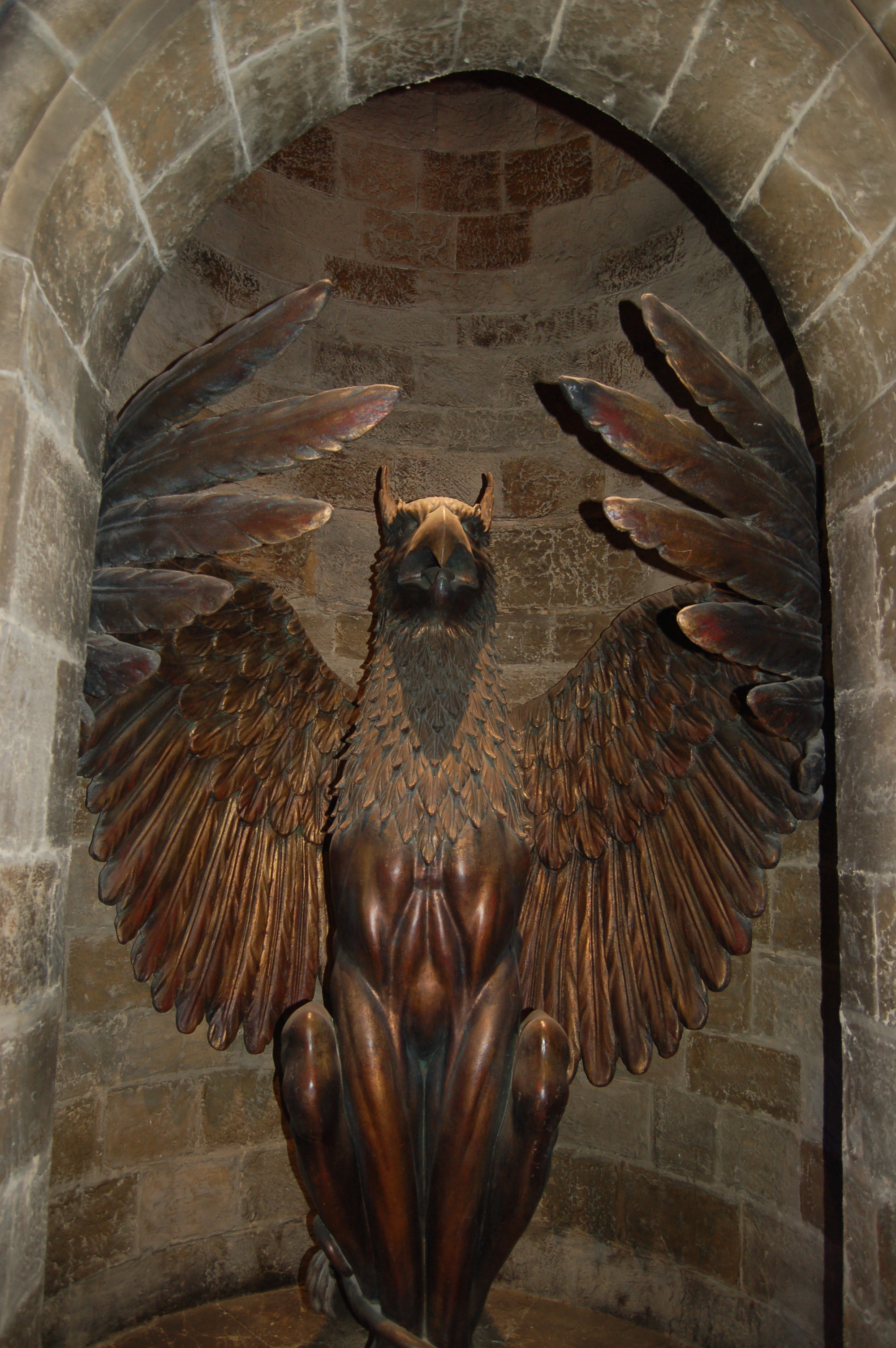 The Griffin Stairwell